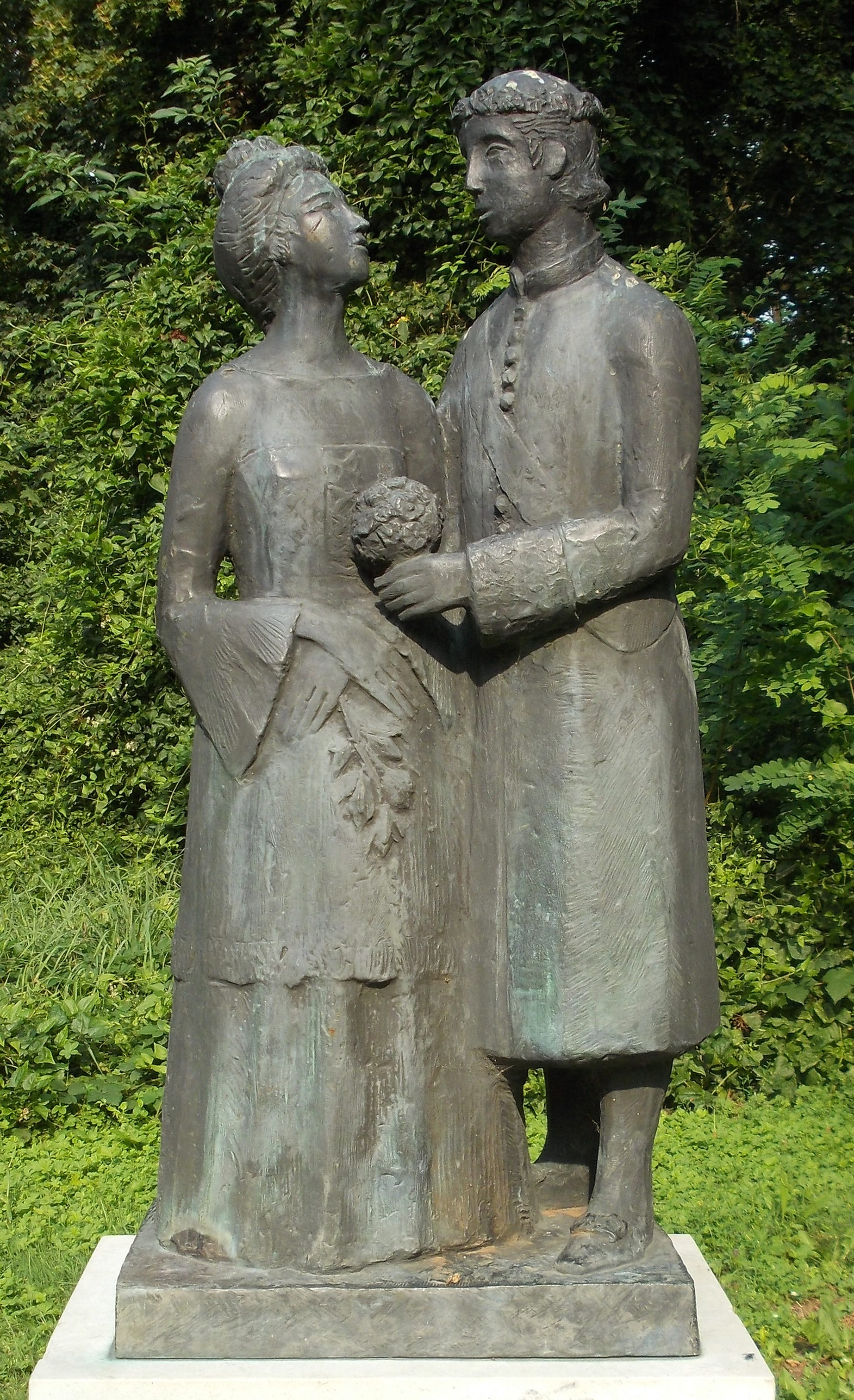 Salinepark ("Park at the salt works") in Halle/Saale (Saxony-Anhalt), sculpture "Salt workers bridal couple" by Gerhard Geyer